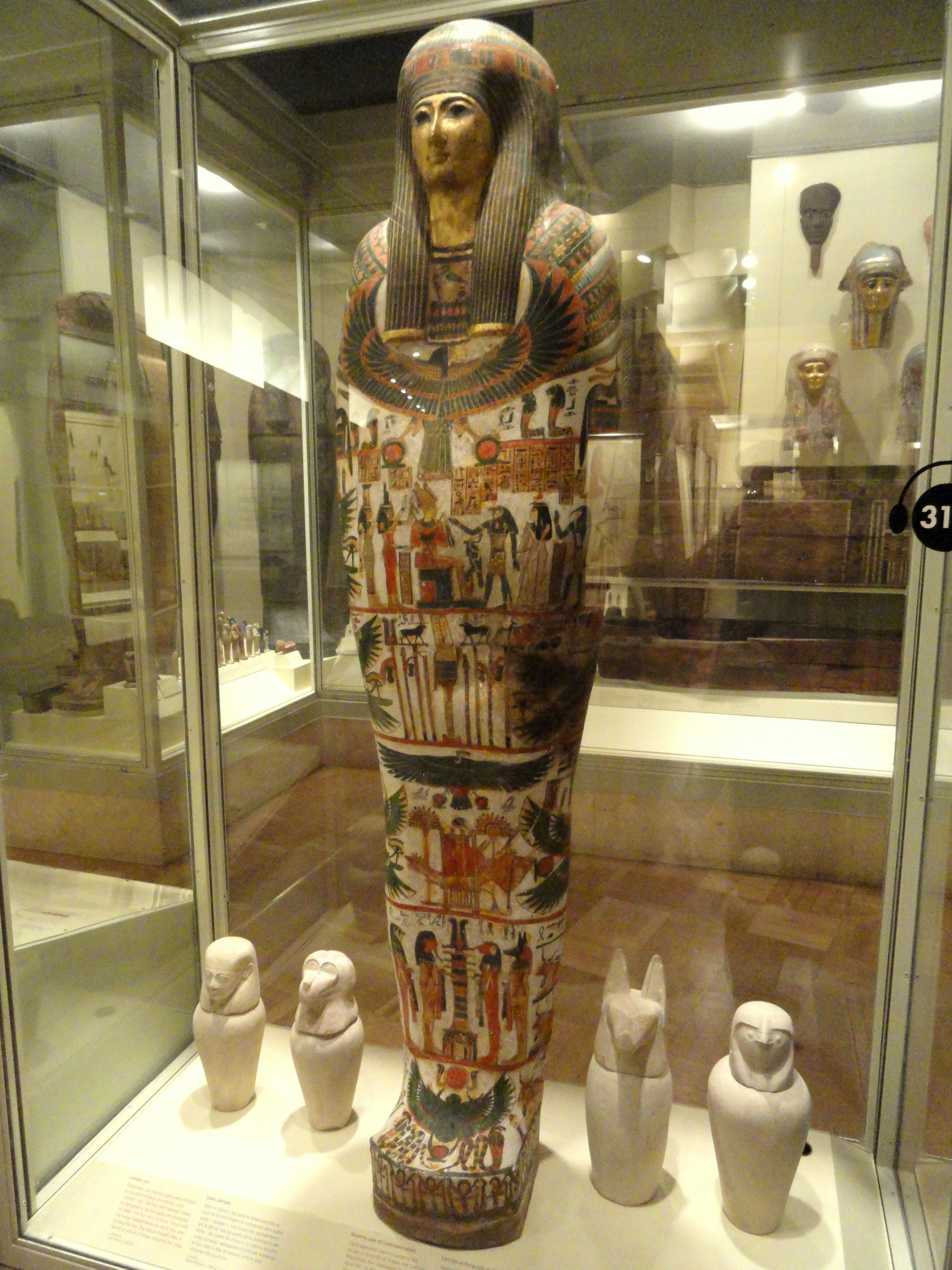 Exhibit in the Royal Ontario Museum, Toronto, Ontario, Canada. This exhibit is old enough so that it is in the public domain, and photography was permitted in the museum. I took this photograph and release it into the public domain.